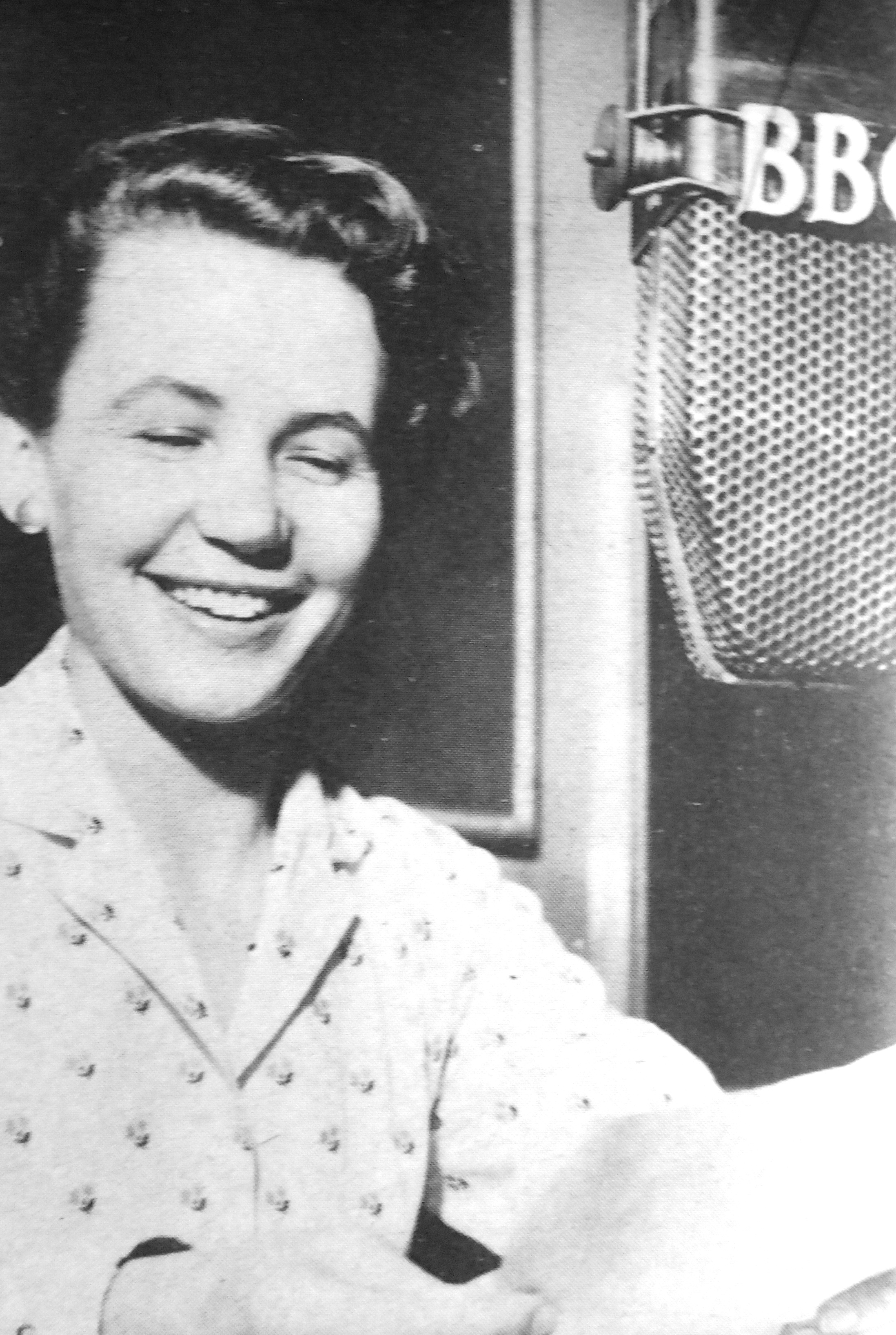 BBC World Service